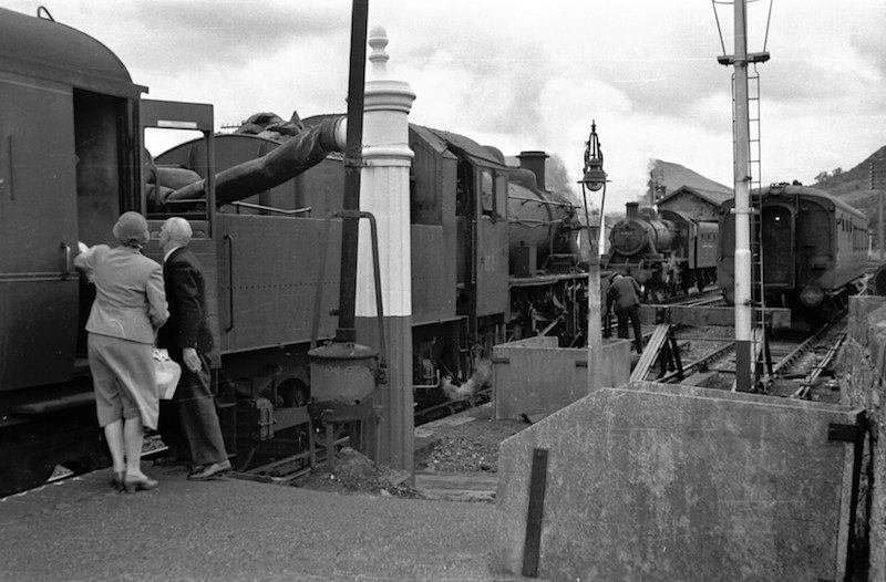 Rhyader railway station